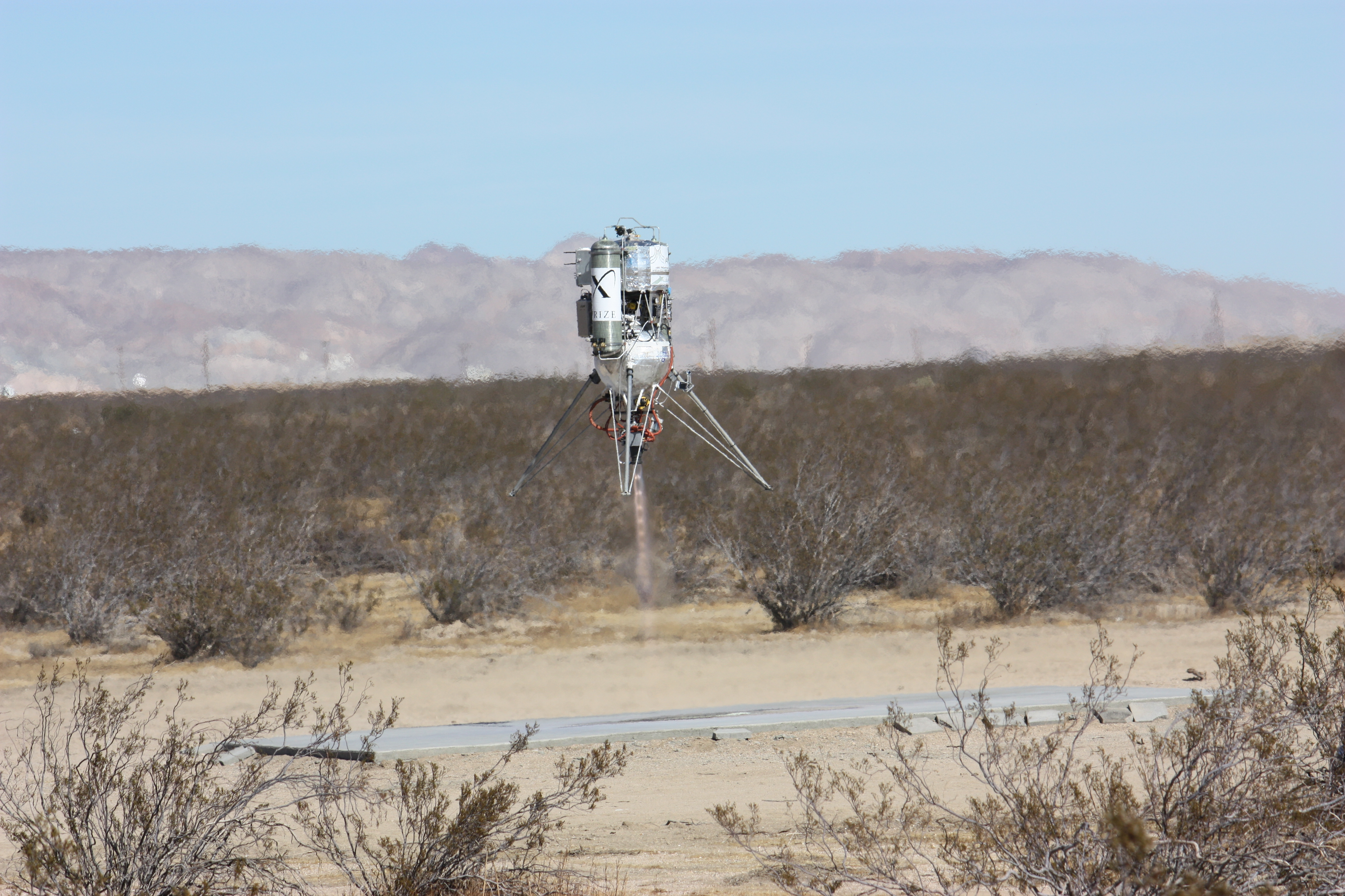 Masten Space Systems XA0.1E rocket, nicknamed "Xoie" (pronounced Zoey) hovering under rocket thrust at the Mojave Air & Space Port in California. This photo is just before landing on the winning flight of Level 2 of the Lunar Lander Challenge. An X-Prize Foundation logo can be seen on the side of the rocket's pressurant tank, placed there for the competition.